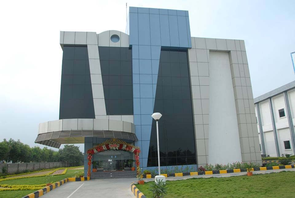 manufacturing unit of shantha biotechnics